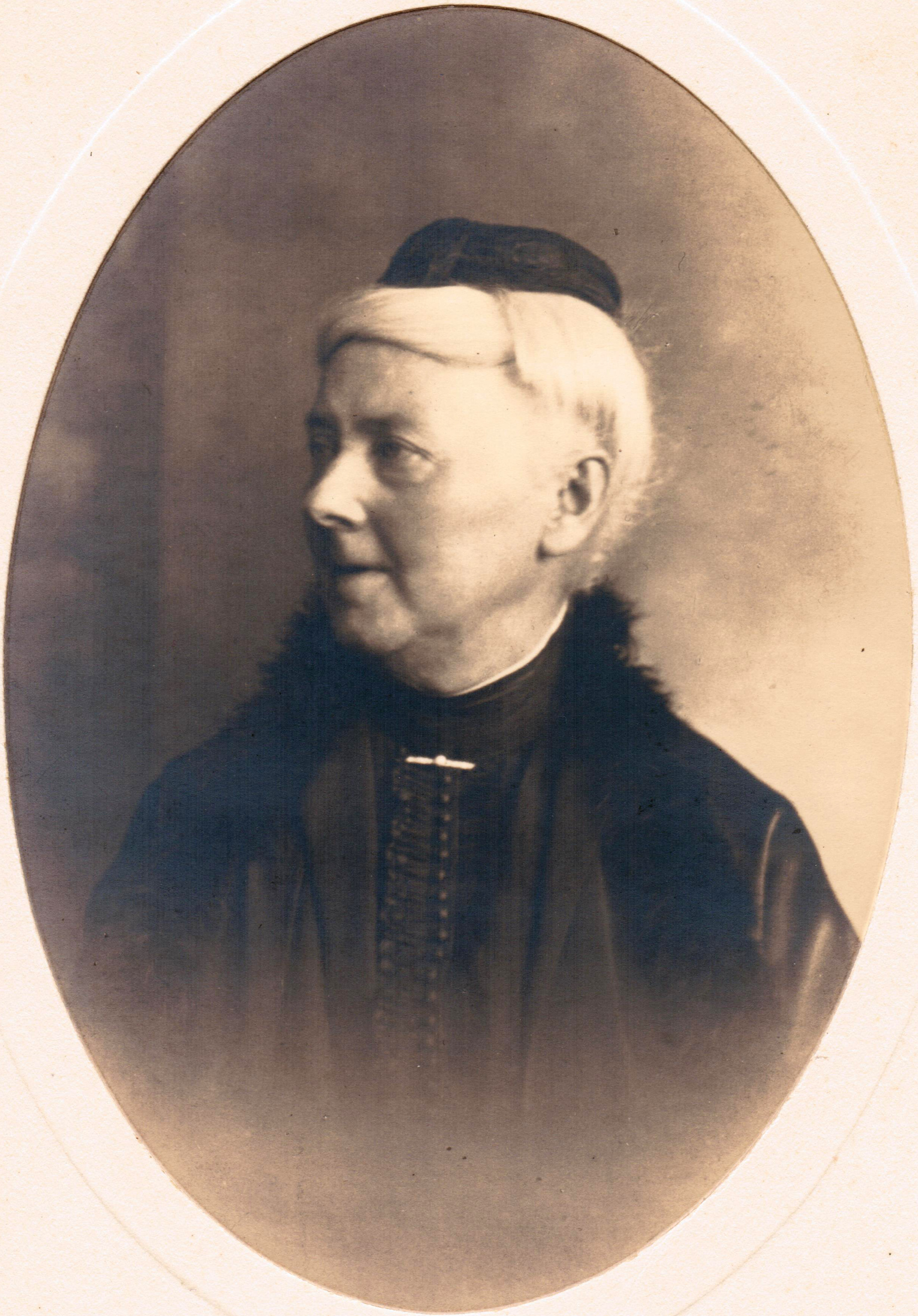 Sophie Colsman geb. Feldhoff 1847-1927